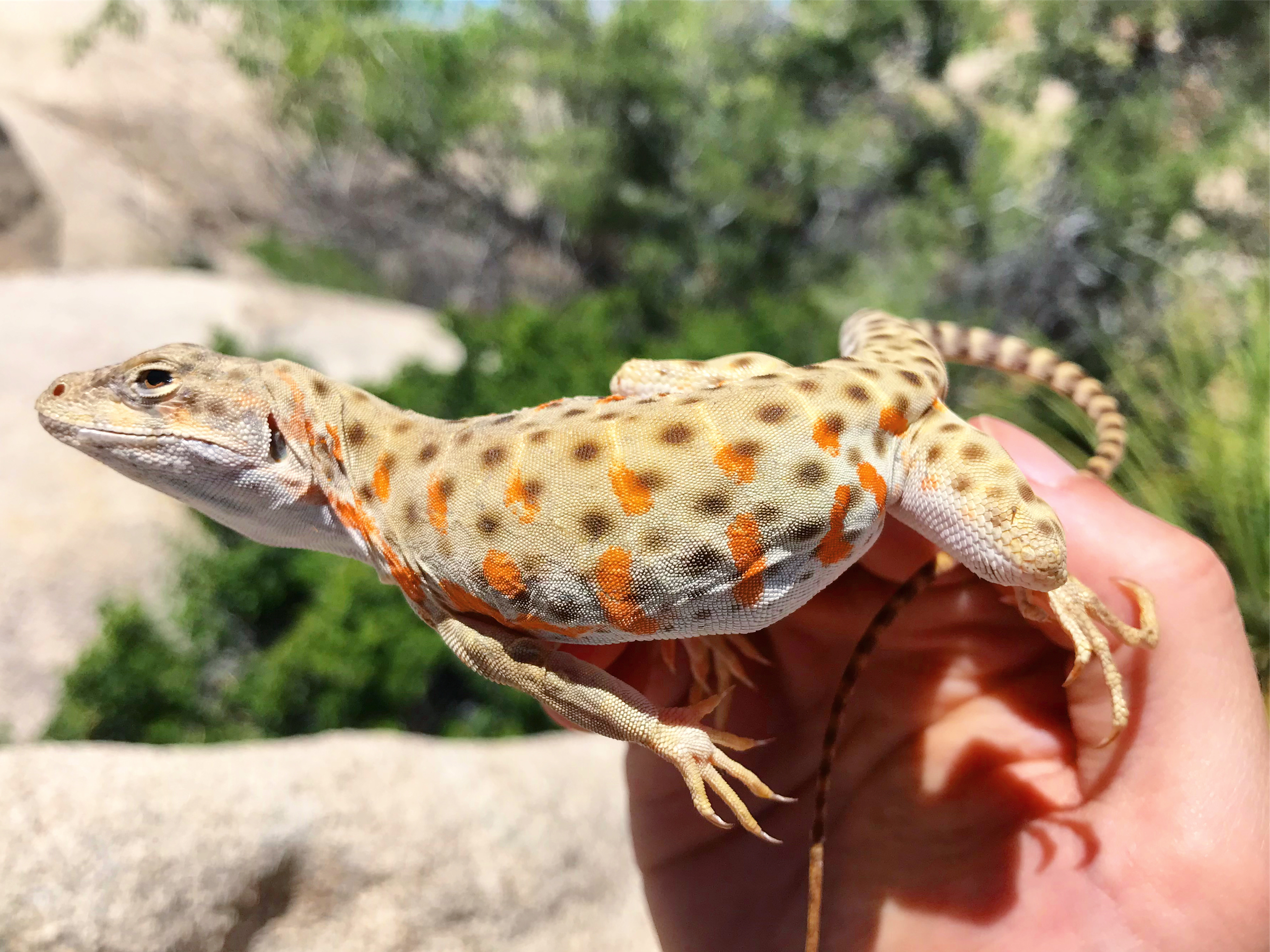 Female Long-nosed Leopard Lizard (Gambelia wislizenii) in breeding colors. Photographed by Connor Long in the Mojave Desert, San Bernardino County, California, USA.